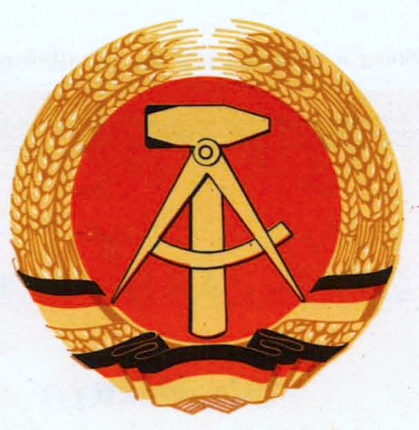 Coat of Arms of the German Democratic Republic (1955-1990) (authentic version)